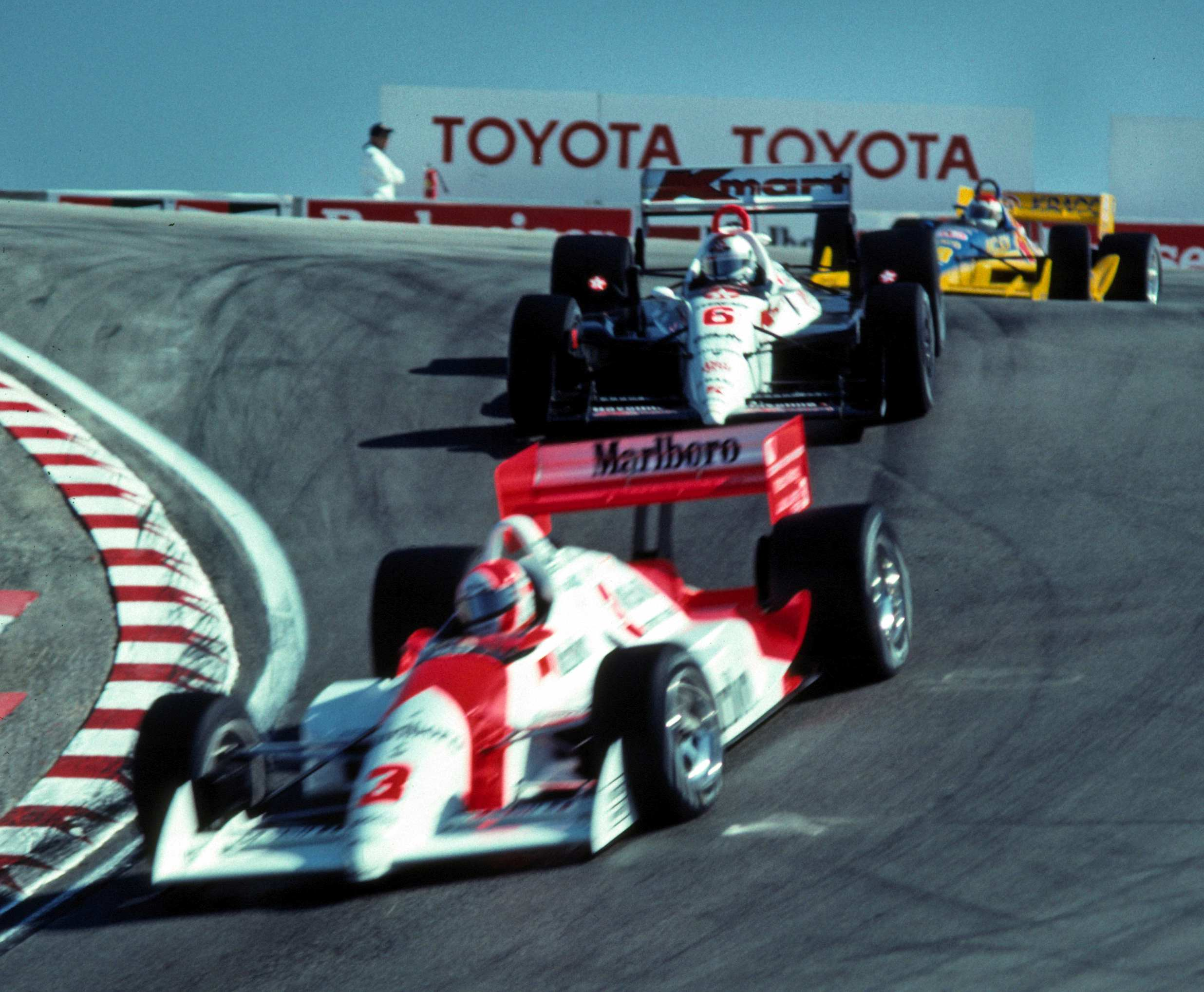 CART Race featuring Rick Mears, Mario Andretti, and Bobby Rahal (Cropped from original)